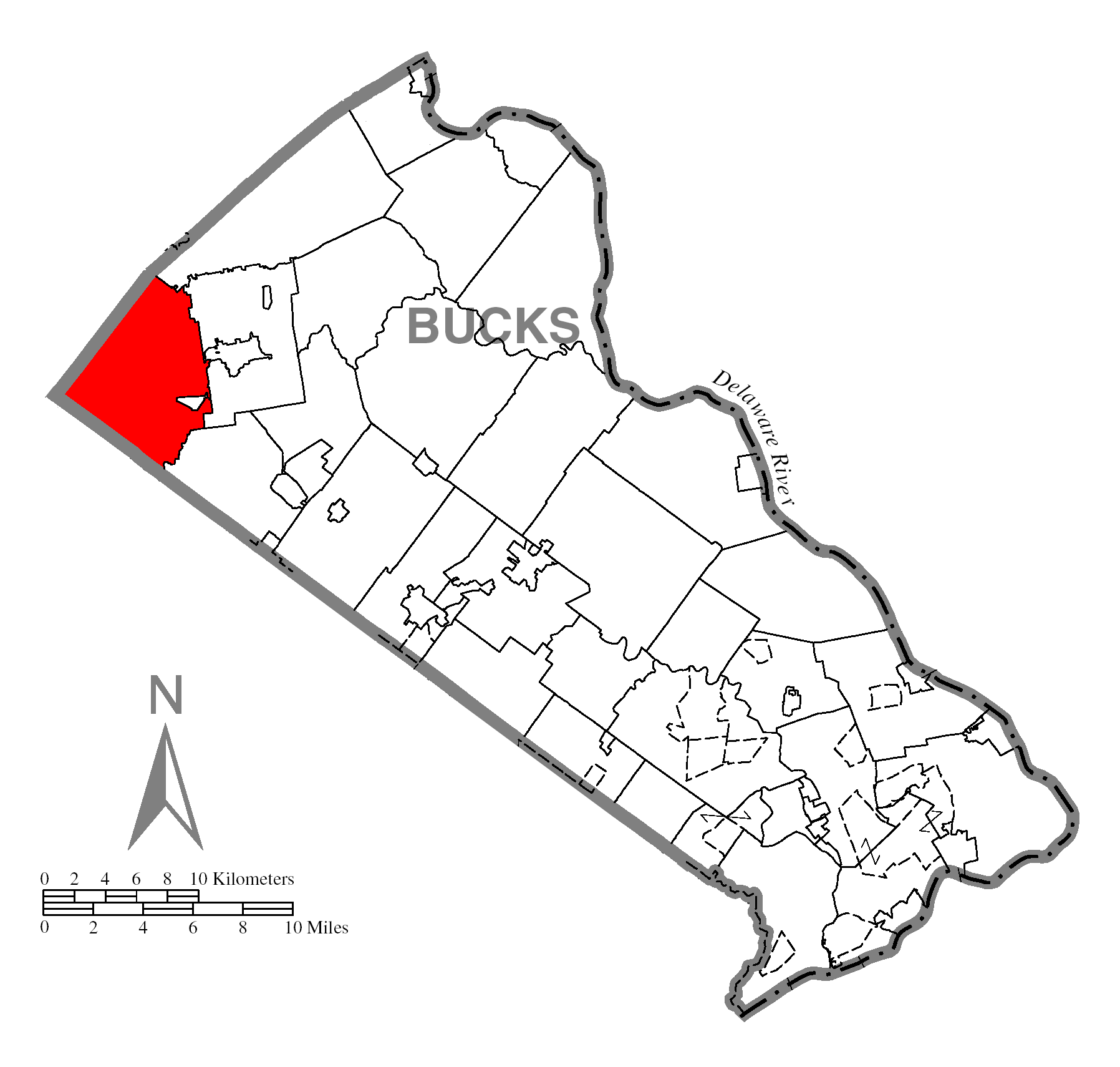 A map of Bucks County showing Milford Township, Pennsylvania (alternate) highlighted on the map.